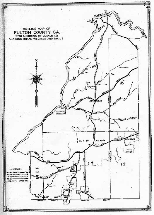 Map of Indian Trails in Fulton County, Georgia